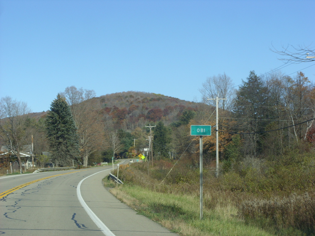 New York State Route 305 northbound proceeding in the hamlet of Obi, New York.